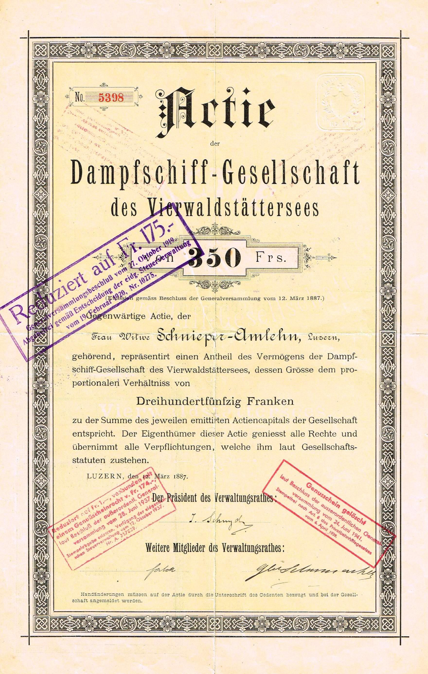 Share of the Dampfschiff-Gesellschaft des Vierwalstättersees, issued 12. March 1887